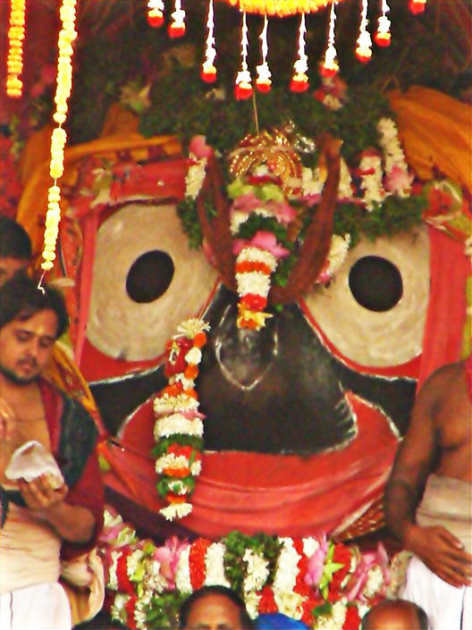 Close up image of Lord Jagannath